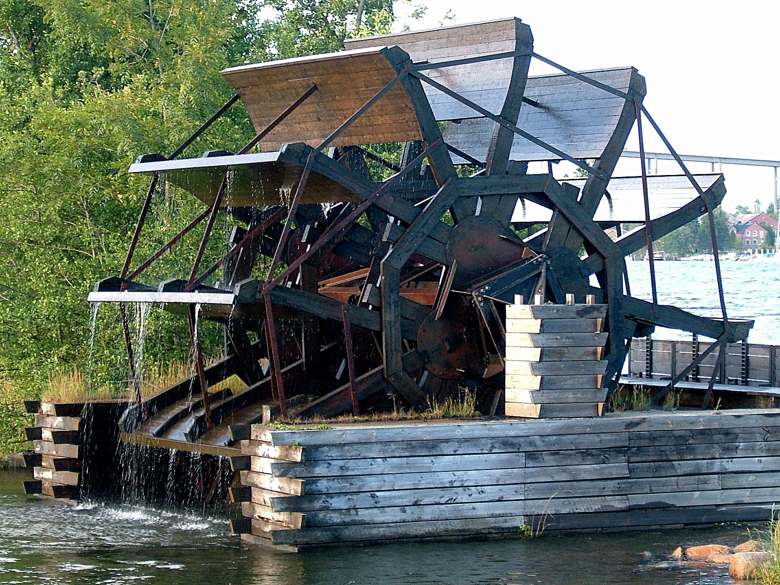 The watermill at Isegran island in Fredrikstad